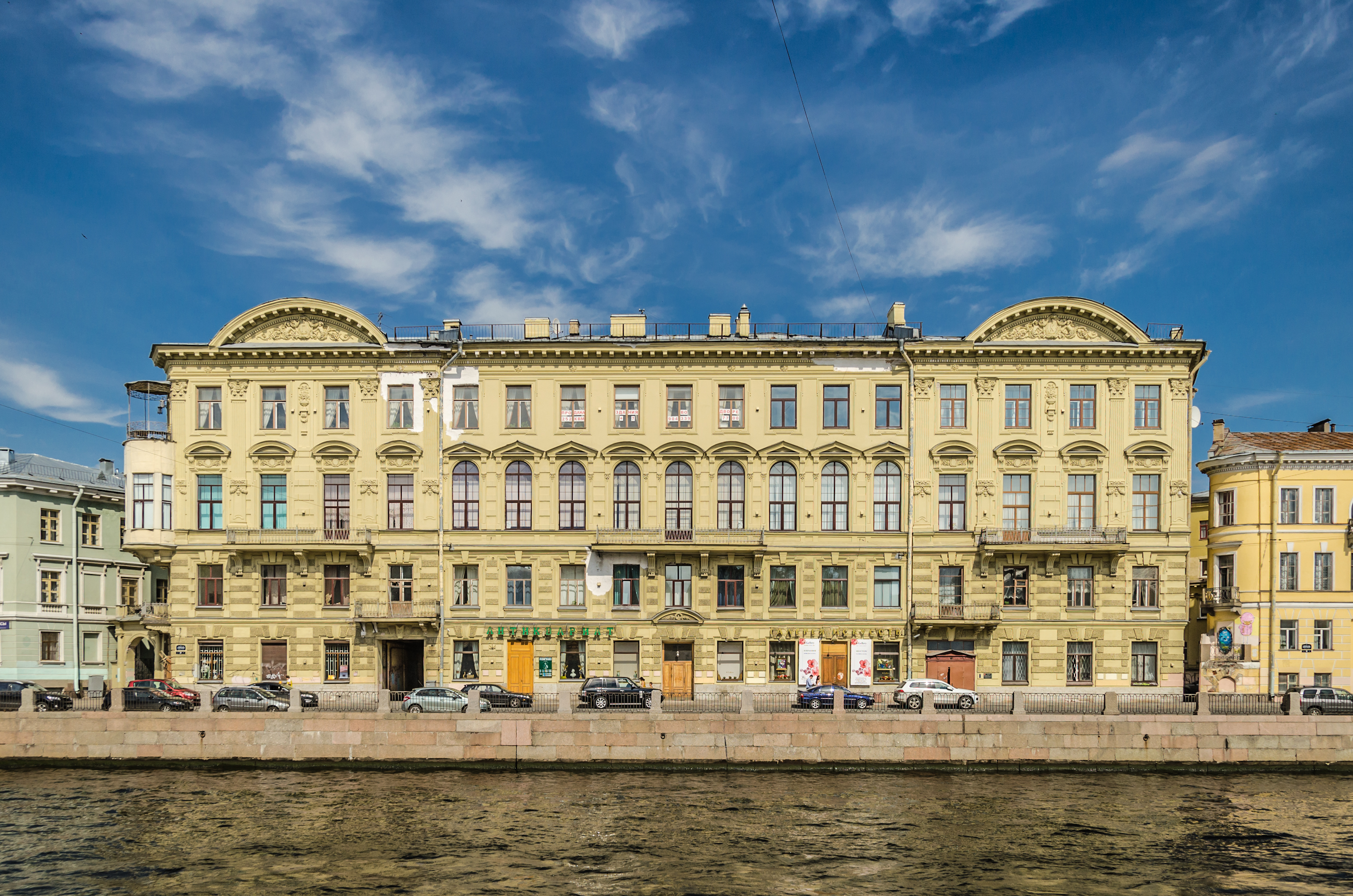 24, Fontanka embamkment in Saint Petersburg